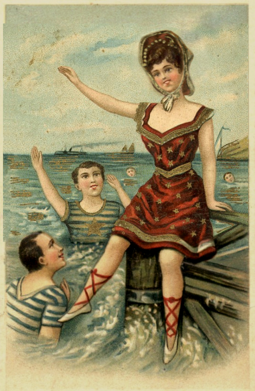 An embossed chromolithographic postcard of a seaside scene, circulated in the United States circa 1907–08. The illustration was used for the cover design of the 1998 album In the Aeroplane Over the Sea by American indie rock band Neutral Milk Hotel. The illustration depicts five bathers at the seaside. In the foreground, two male bathers are swimming in the water while a female bather is seated on a dock. In the background, two other swimmers poke their heads out of the water, and farther out on the horizon three ships are sailing. An alternate version of the postcard without the gold detailing also circulated around the same time period; see "Other versions" below. The numerals "205/6" are printed on the backside of the postcard, but there is no name or identifying information for the publisher or artist. It was a "divided back" postcard, with the left side to be used as space for the sender's message and the right side to be used for the address and postage stamp(s). According to , U.S. postal regulations began allowing such "divided back" postcards starting March 1, 1907—which is consistent with the dating of the postcard, detailed below. Before then, the backside could only be used for the address and any message had to be written on the postcard's front. The postcard was just one in a series of similar seaside illustrations, which by all appearances were produced by the same artist; examples of other cards in the series can be seen at .